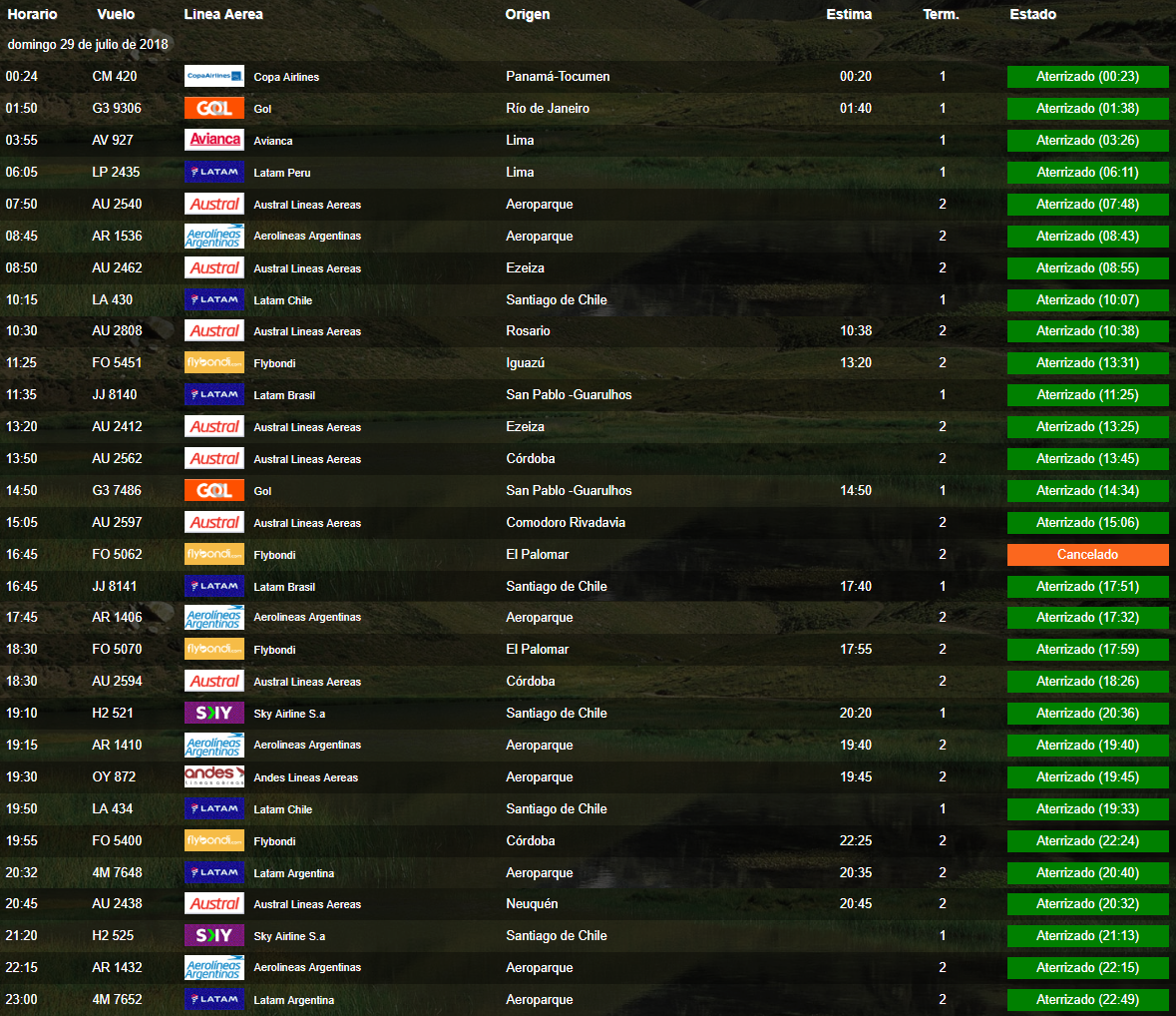 Día en el que se pueden apreciar los vuelos de absolutamente todas las aerolíneas nacionales e internacionales que operan en Mendoza (Julio 2018)